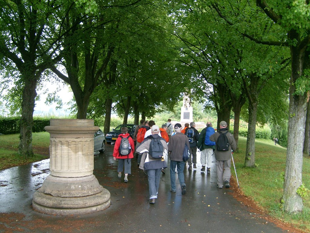 The national monument of independence near Mersch, Luxembourg. View of remain of former column.